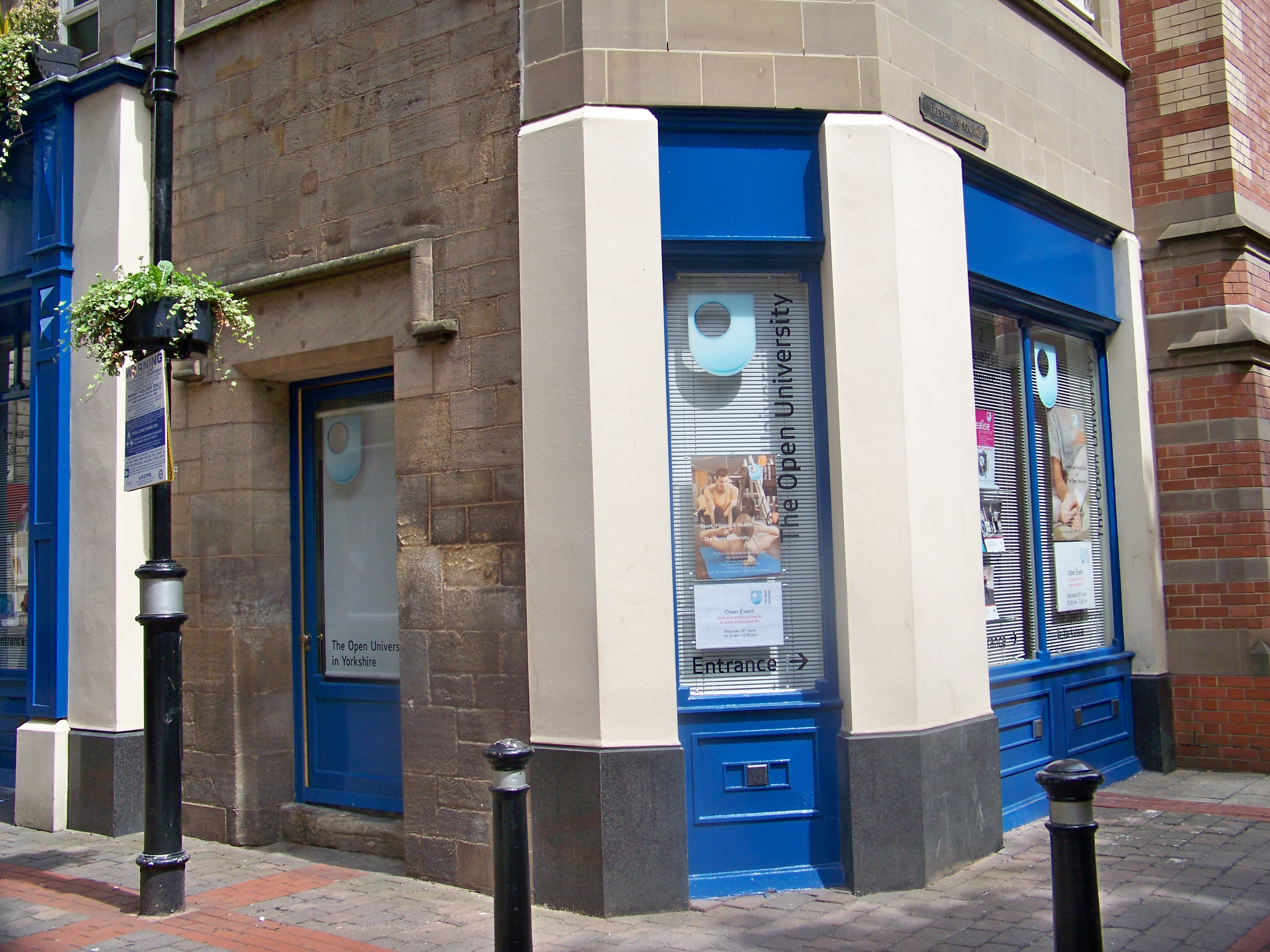 A branch of The Open University on Trevelyan Square (off Boar Lane) in Leeds, West Yorkshire. Taken on the afternoon of Thursday the 27th of June 2010.